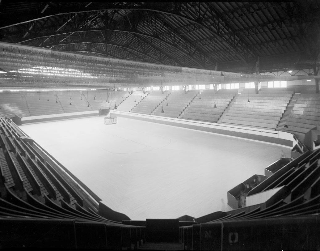 The interior of the Mutual Street Arena, Toronto, Canada.